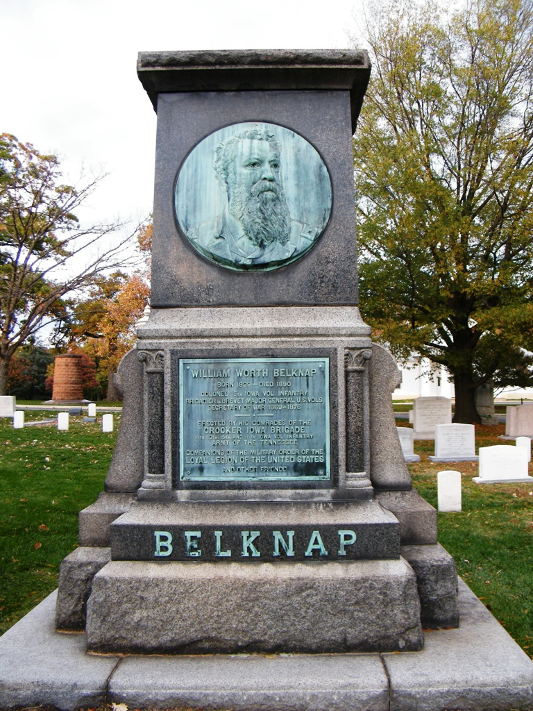 Bronze relief bust of William Worth Belknap in circular setting on upper front of granite base. Belknap wears a dress uniform, his hair is parted on the proper right side, and he has a long, full beard. Save Outdoor Sculpture, Virginia survey, 1995. Source: Inventories of American Painting and Sculpture, Smithsonian American Art Museum, P.O. Box 37012, MRC 970, Washington, D.C. 20013-7012 SOS! Link: Located Arlington National Cemetery, Arlington, Virginia WSPA Photo